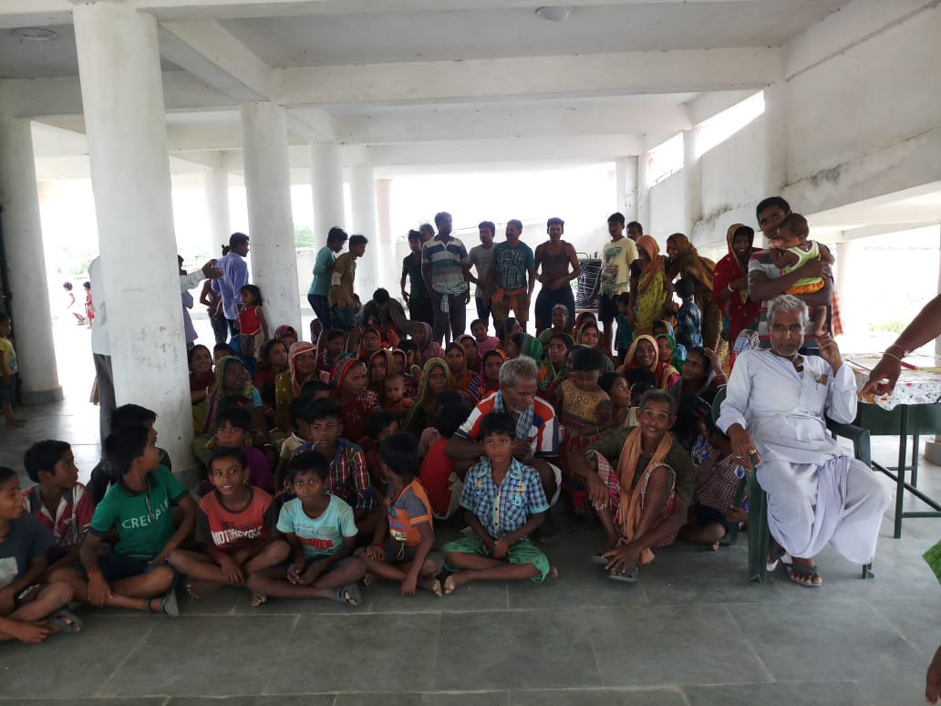 Tweet Text: RT @DM_Bhadrak: #OdishaPrepared4Fani CycloneFani Bhadrak Evacuation in #Basudevpur #CycloneShelter #OSDMA